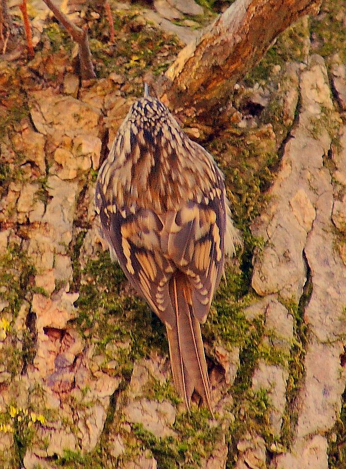 A brown creeper beside the potomac near great falls, MD, USA.